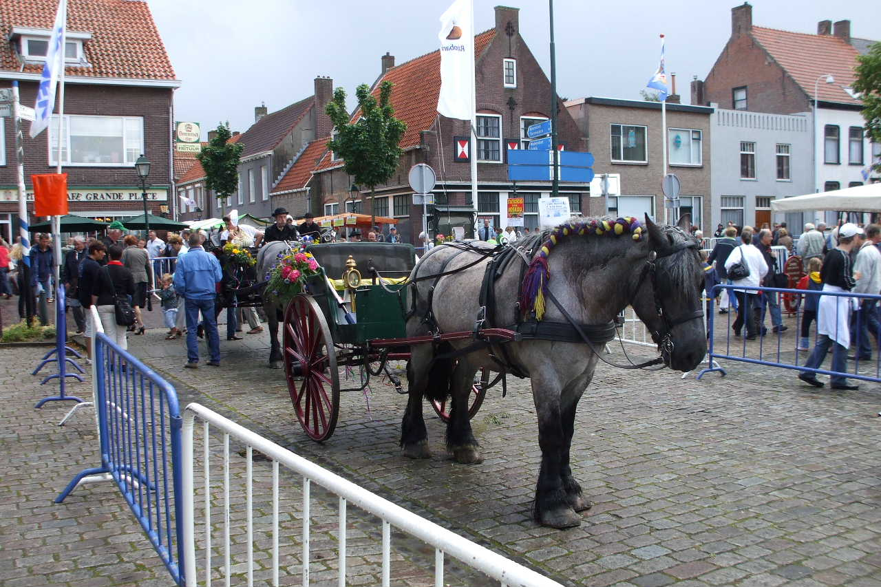 Folk day - carriage